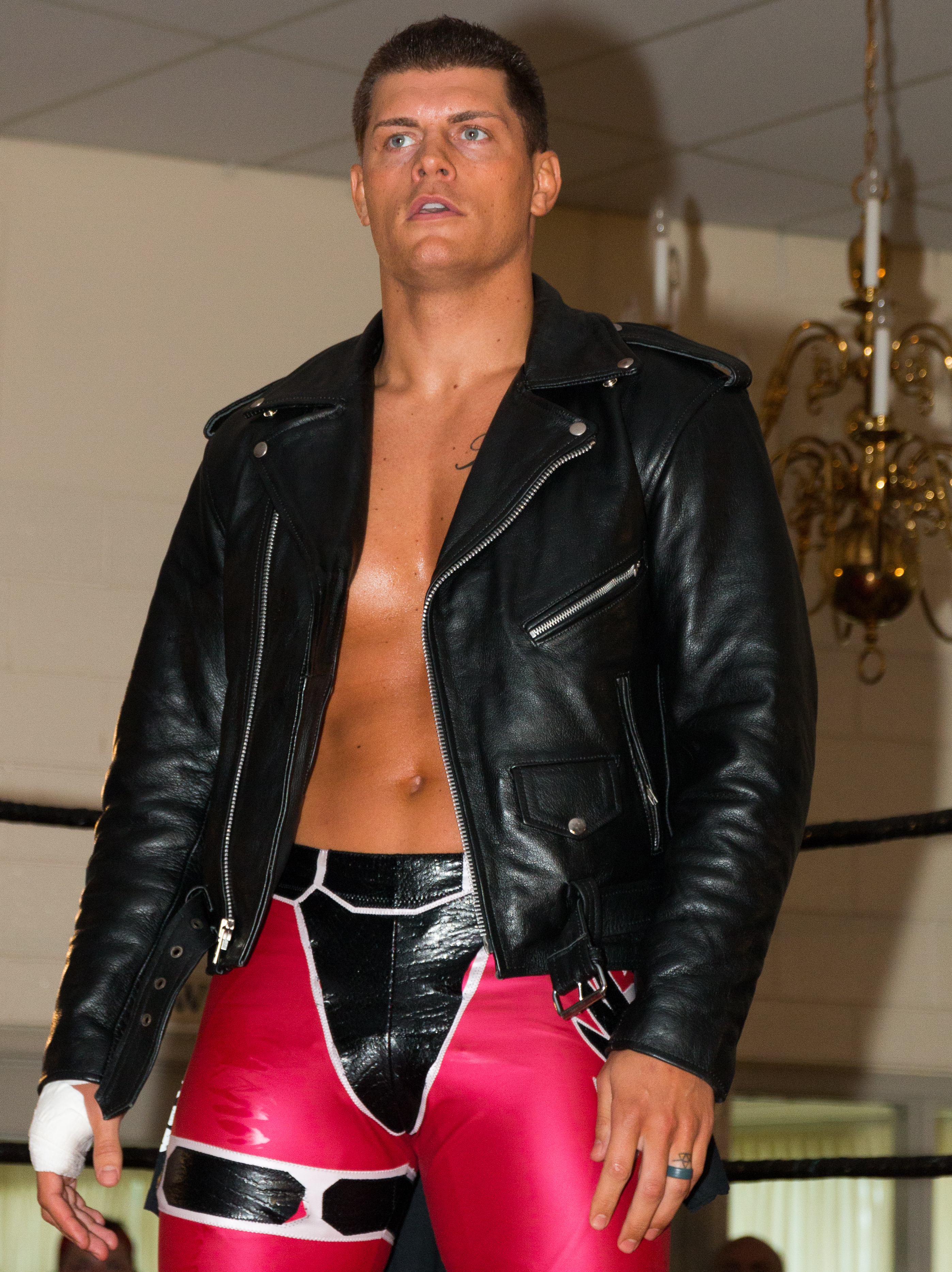 Cody Rhodes at an Alpha-1 independent wrestling show in Hamilton, ON in June 2017